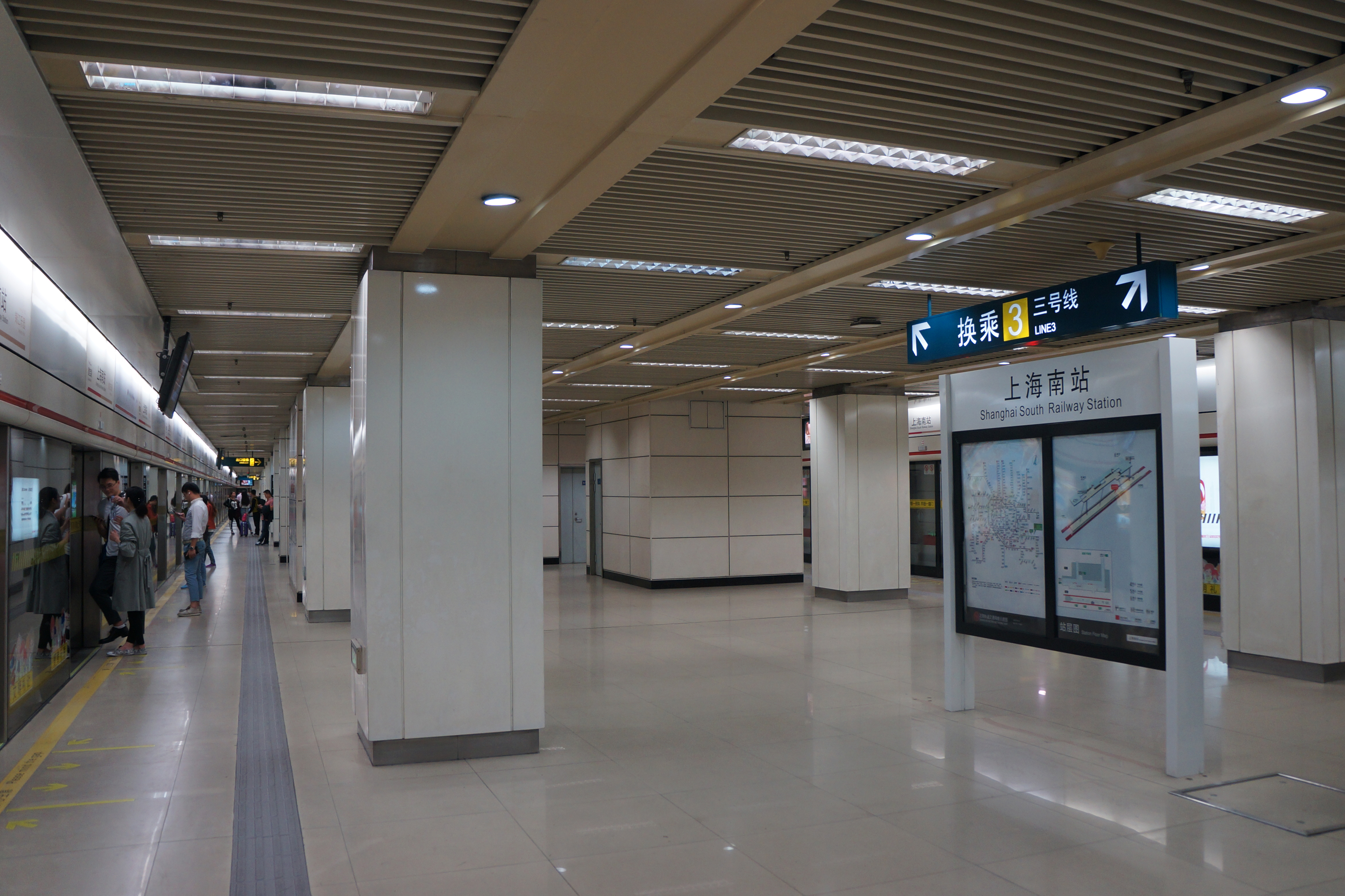 201610 Platform for L1 at Shanghai South Railway Station